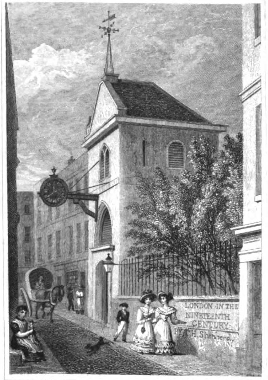 Remains of the church of St Martin Orgar